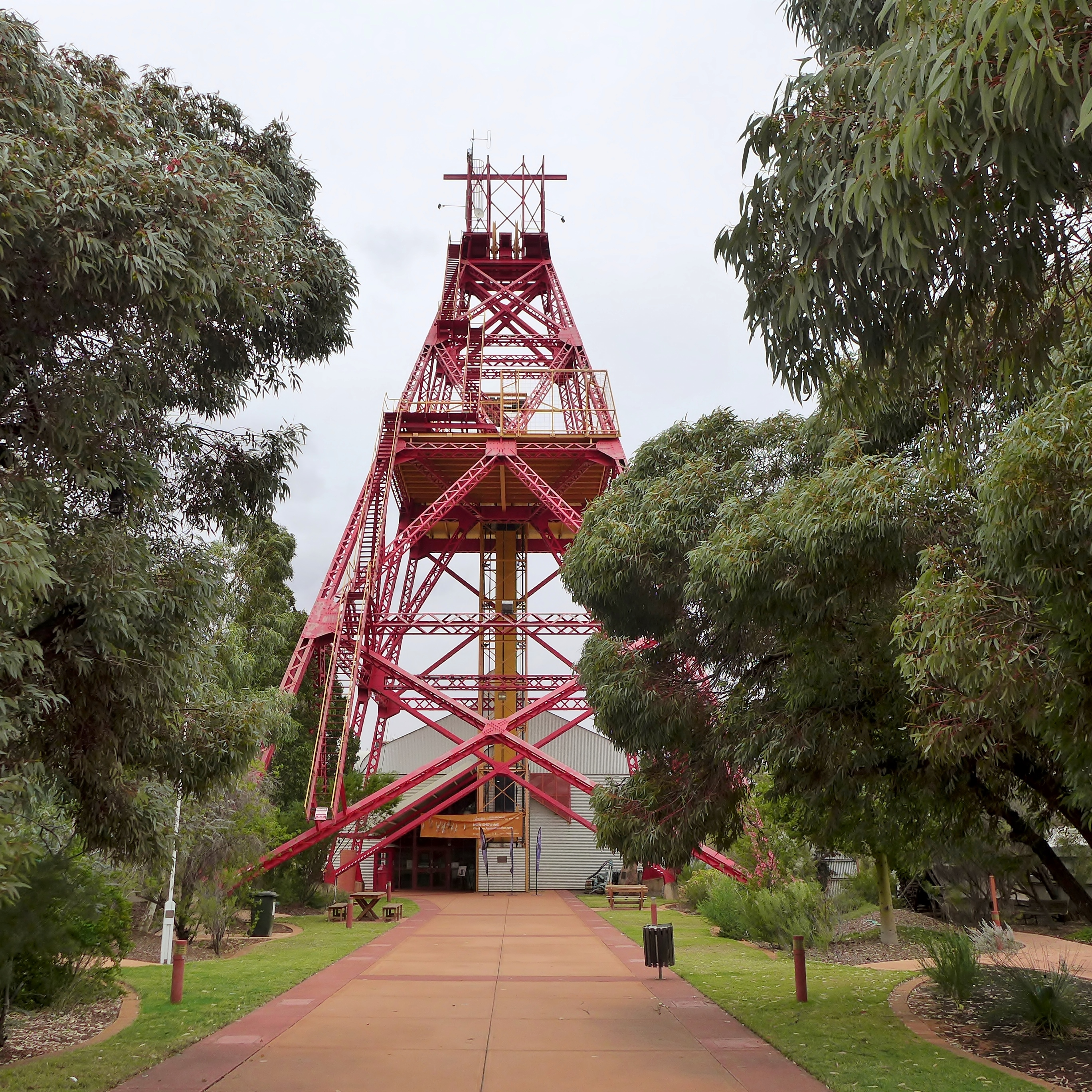 View of the entrance to the Western Australian Museum, Kalgoorlie-Boulder, in Hannan Street, Kalgoorlie, Western Australia.